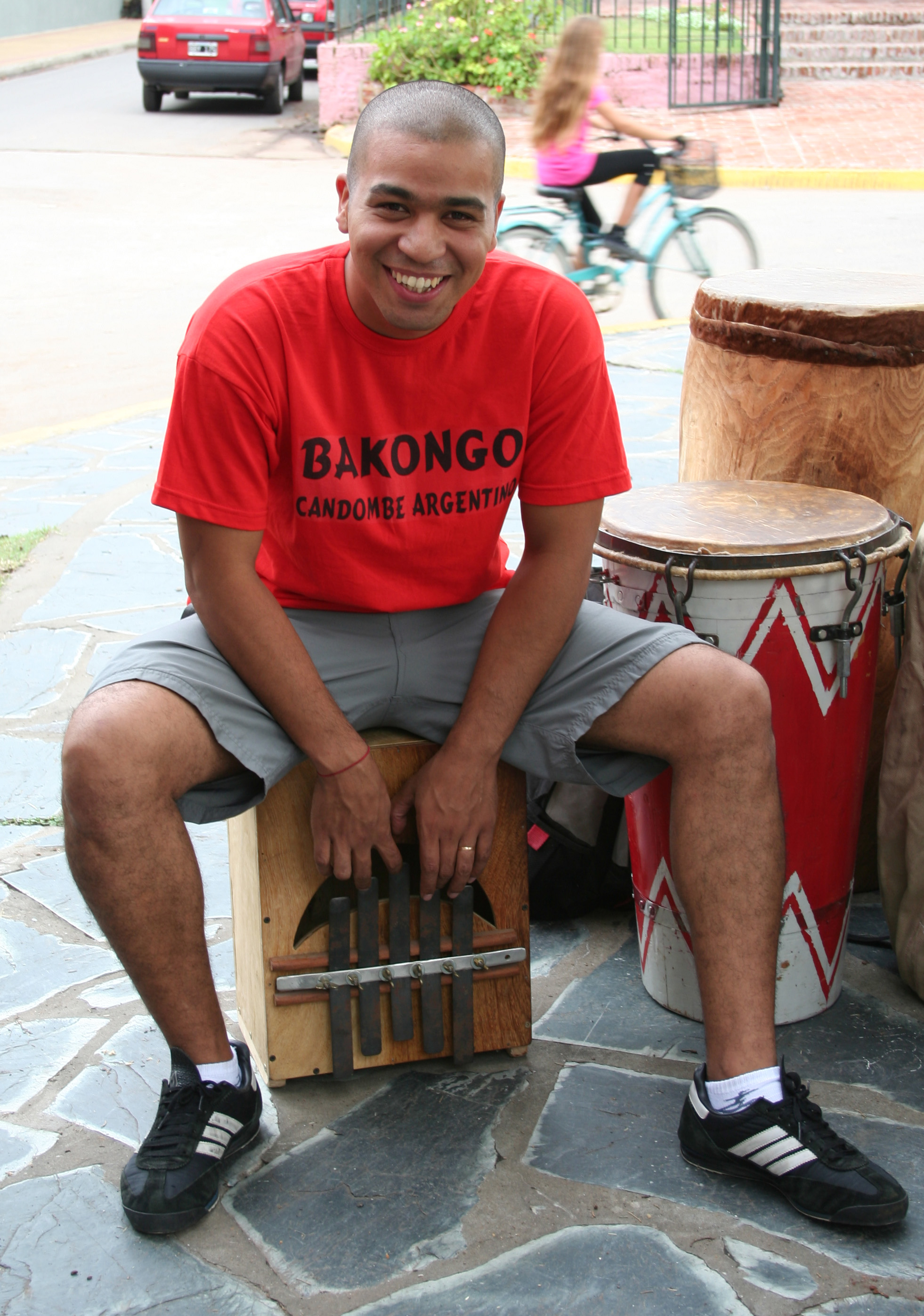 An afro-argentine playing the Quisanche.